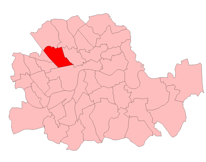 A map of St Marylebone constituency within the London County Council area, as it existed from 1950 to 1974.